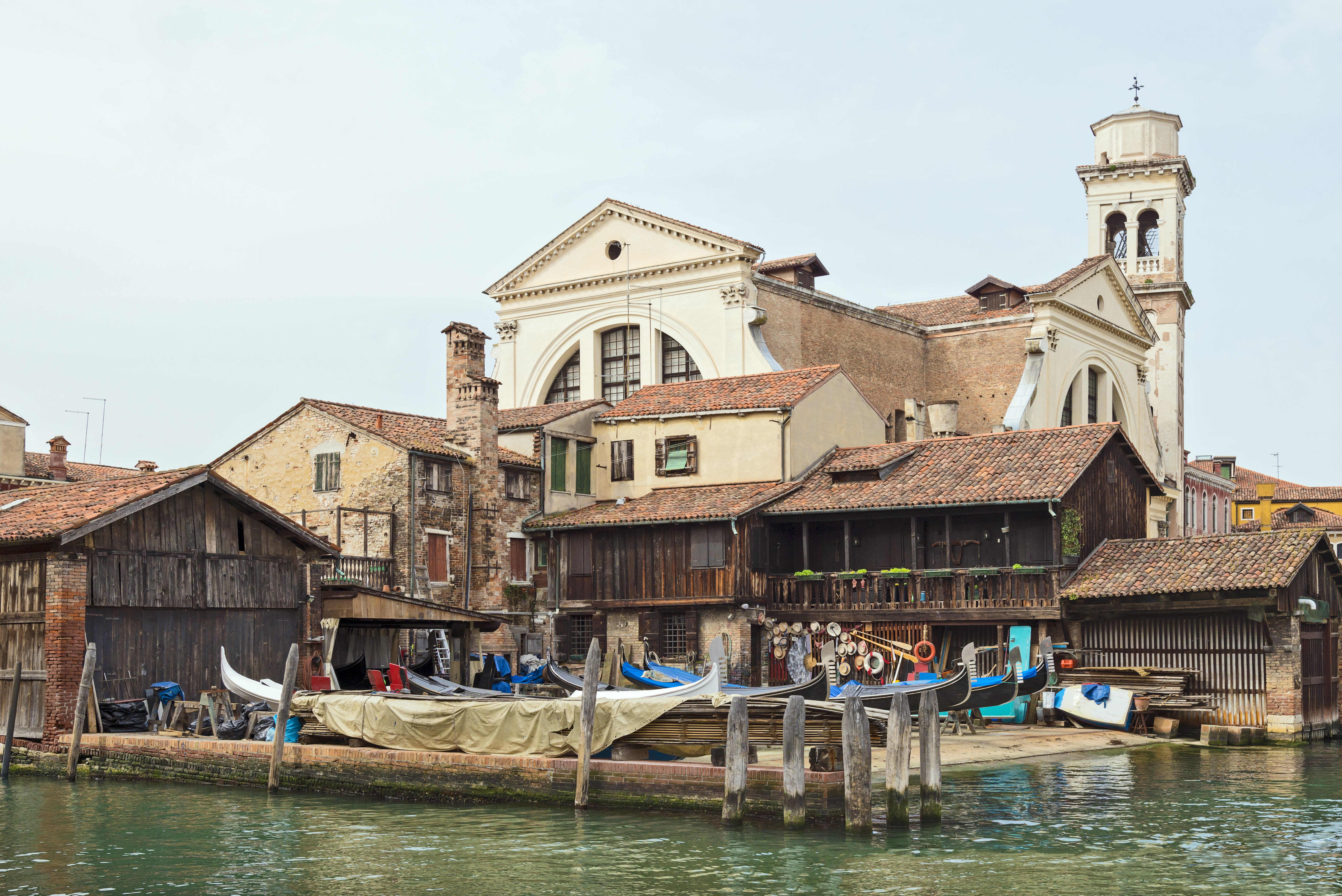 Squero di San Trovaso Venice (construction site gondolas).